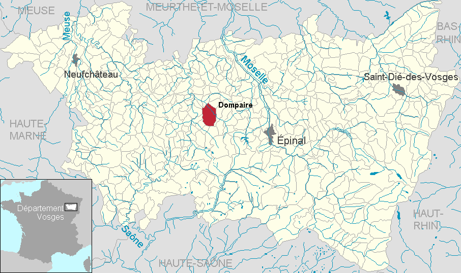 Dompaire in the department of Vosges, Lorraine, France